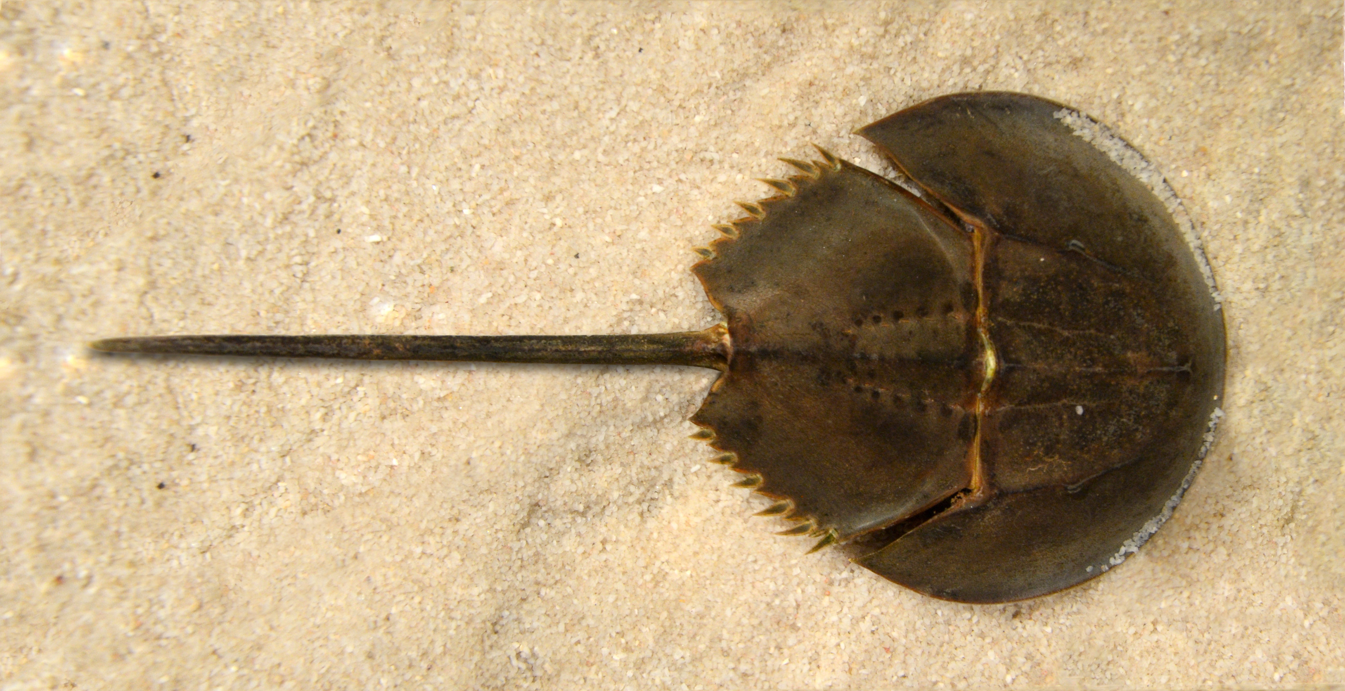 mangrove horseshoe crab